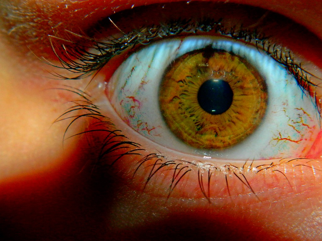 paranoid eye